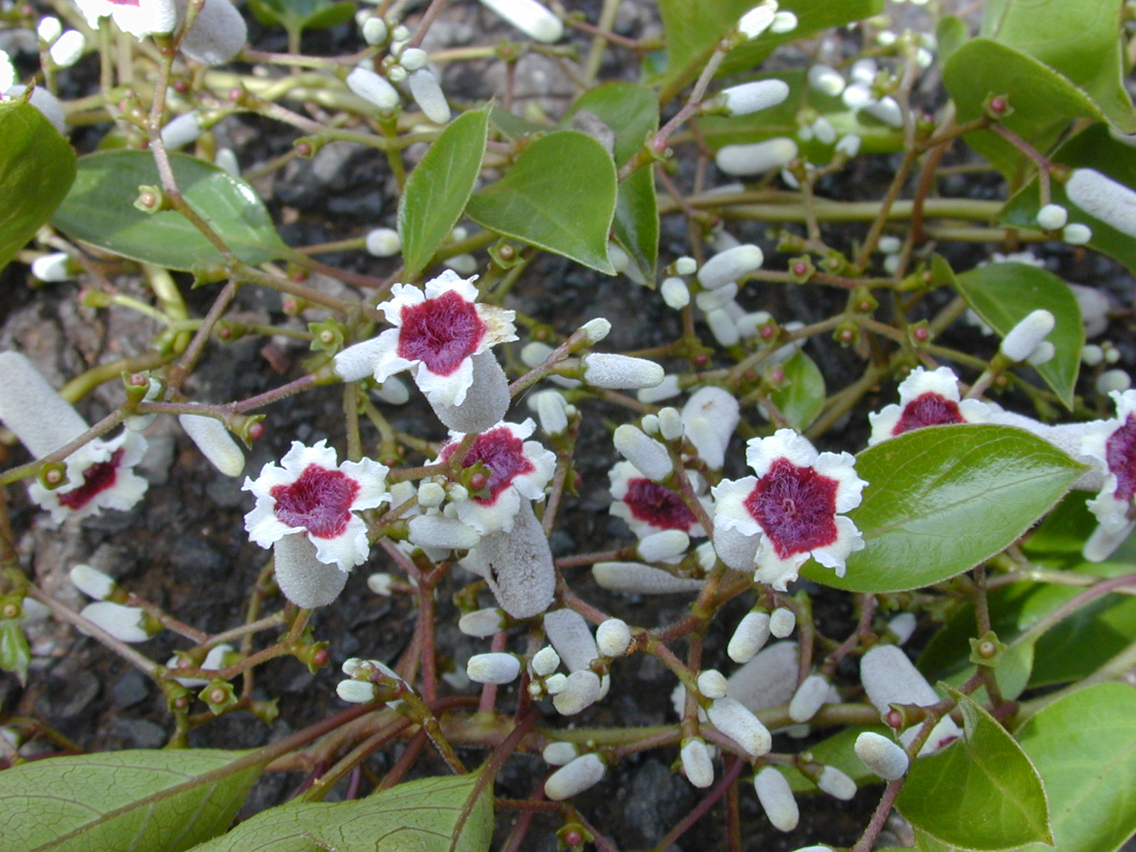 Paederia foetida (flowers). Location: Maui, Makawao